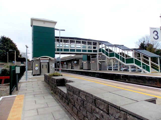 Bridgend railway station footbridge. Viewed from platform 3. Opened in 2012, the new footbridge can be accessed via lifts or stairs. The £2.4 million improvement project was part of the national Access for All scheme, backed by the Department for Transport, that aims to provide step-free access to about 145 railway stations in England, Scotland and Wales. The new footbridge and two lifts were designed to provide passengers with a safe and secure environment. They are well-lit and equipped with telephones and CCTV monitoring.